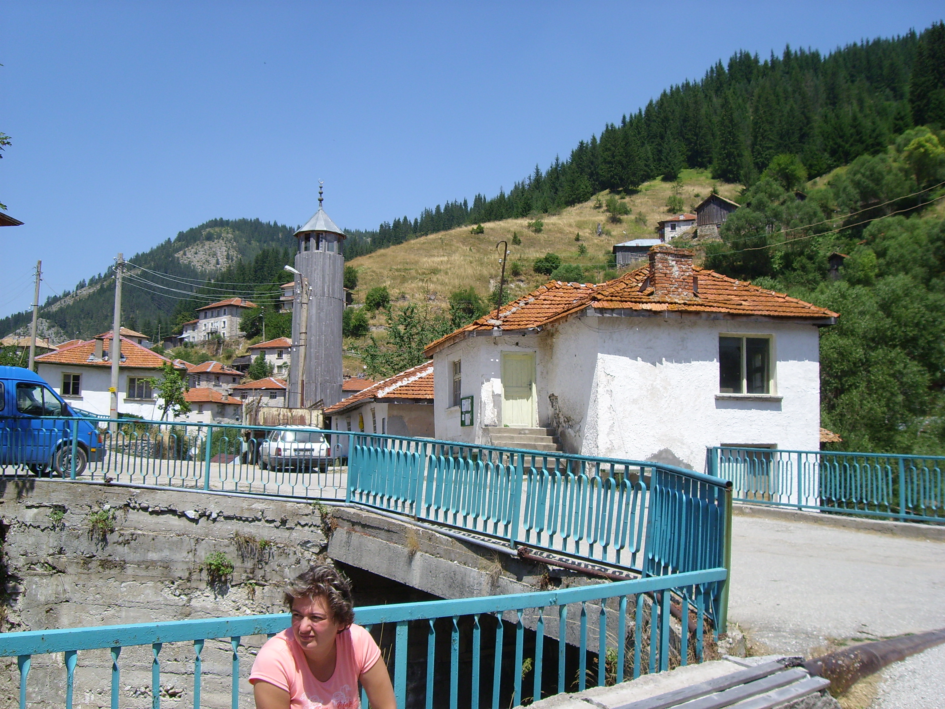 The village of Mugla.